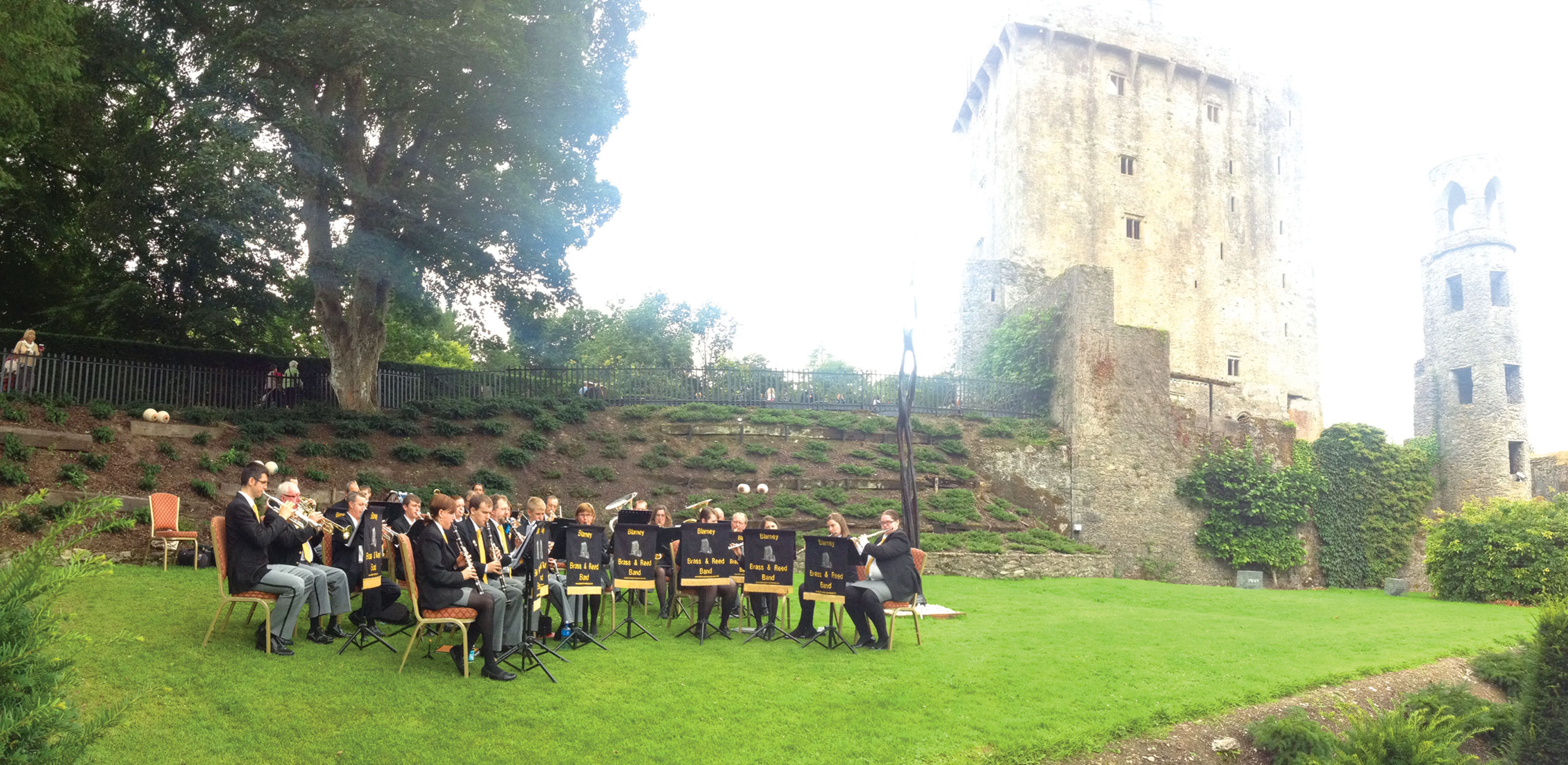 Blarney Brass and Reed Band at Blarney Castle Summer 2013